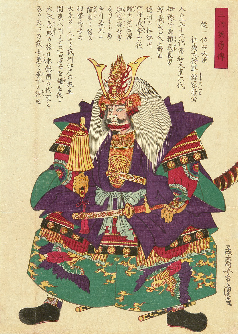 "Mikawa Eiyu Den" (Heroes of Mikawa Province). Warrior lord Tokugawa Ieyasu (1543 -1616), the founder of the Tokugawa shogunate, which lasted for 300 years. Woodblock print, Ukiyo-e.